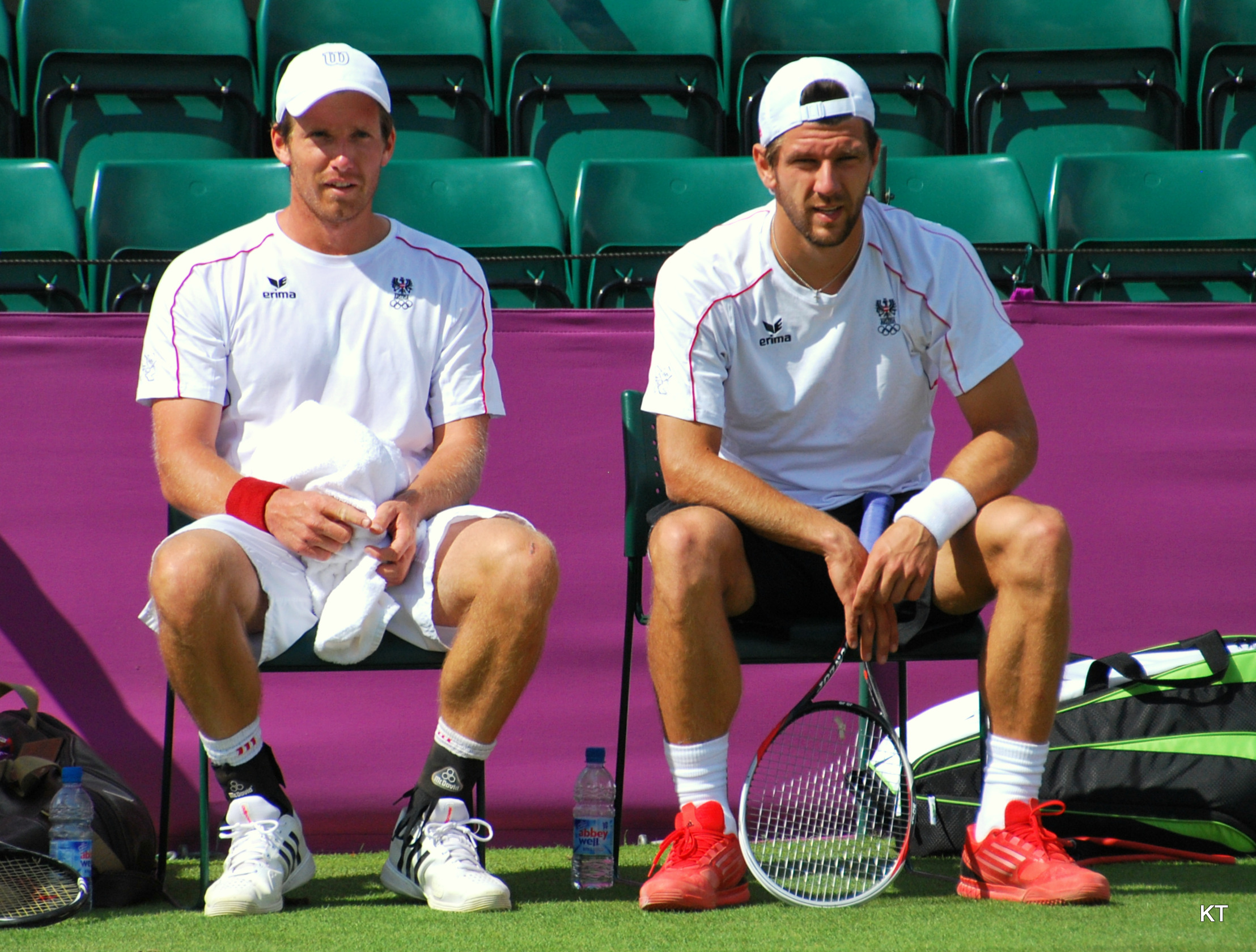 Alex Peya & Jürgen Melzer on the practice court.